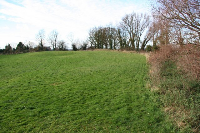 Castle Hill Earthworks of a ringwork castle, thought to have been built by Anglo-Norman baron Elias de Rabayn in about 1270, a survey of 1288 described extensive stone buildings and a prosperous estate. A scheduled ancient monument owned and maintained as a village amenity space by Welbourn Parish Council